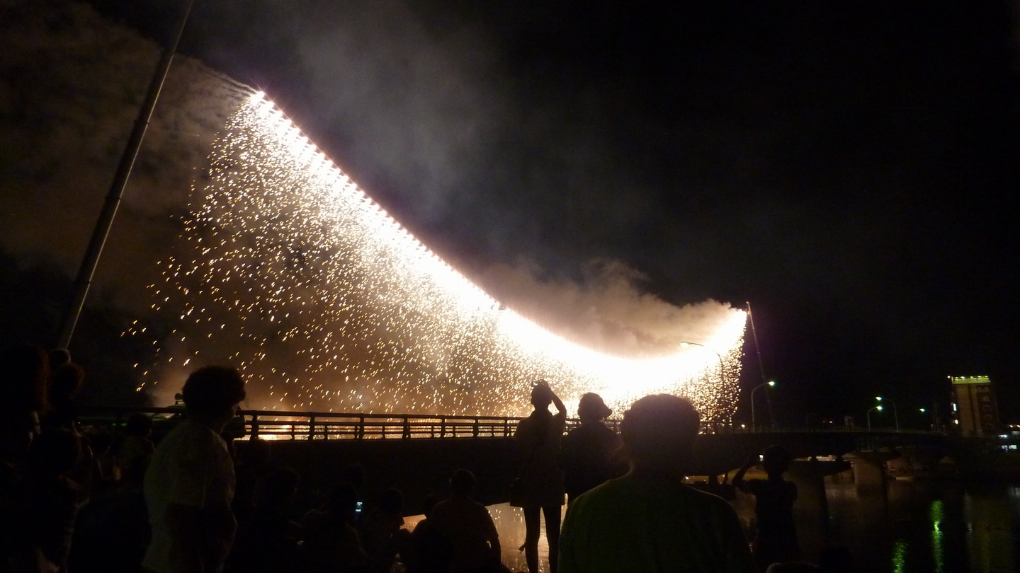 Sendai River Fireworks in 2010 (Satsumasendai City, Kagoshima, Japan)